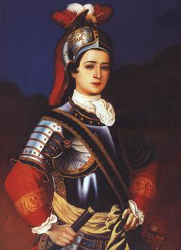 uyghur princess